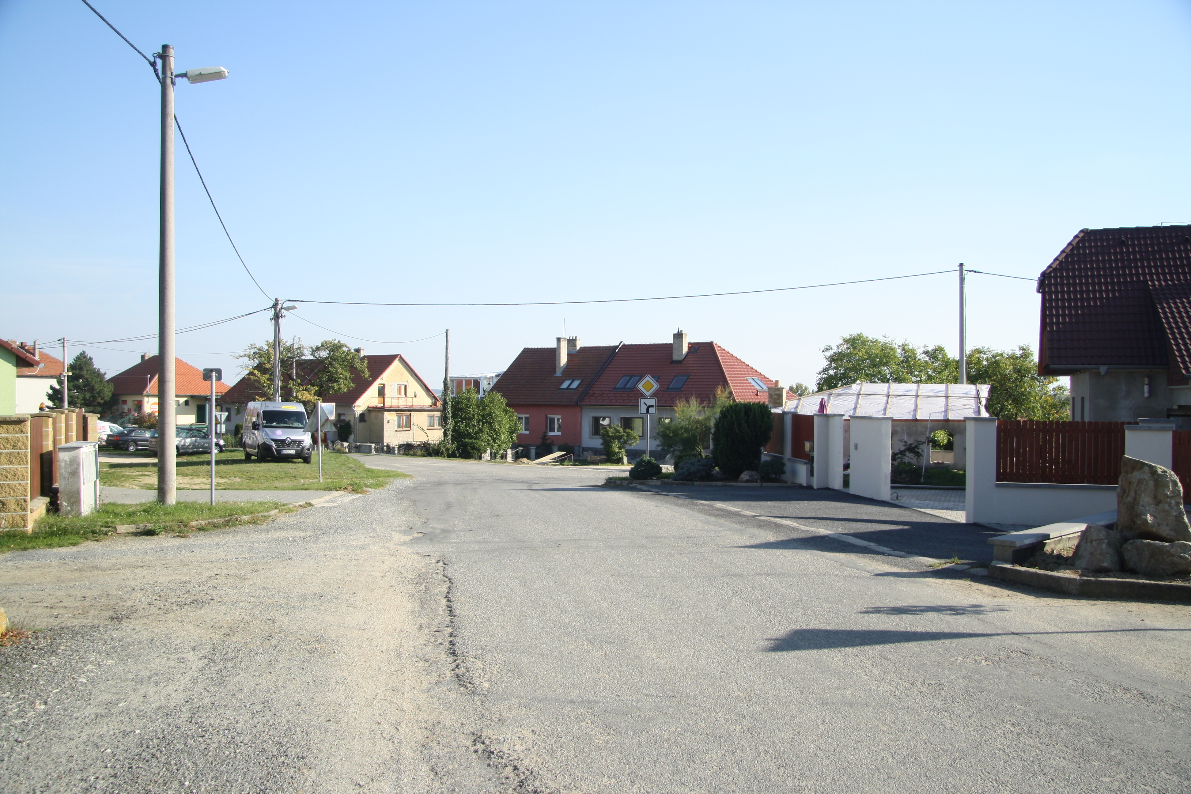 Center of Pozďatín, Třebíč District.